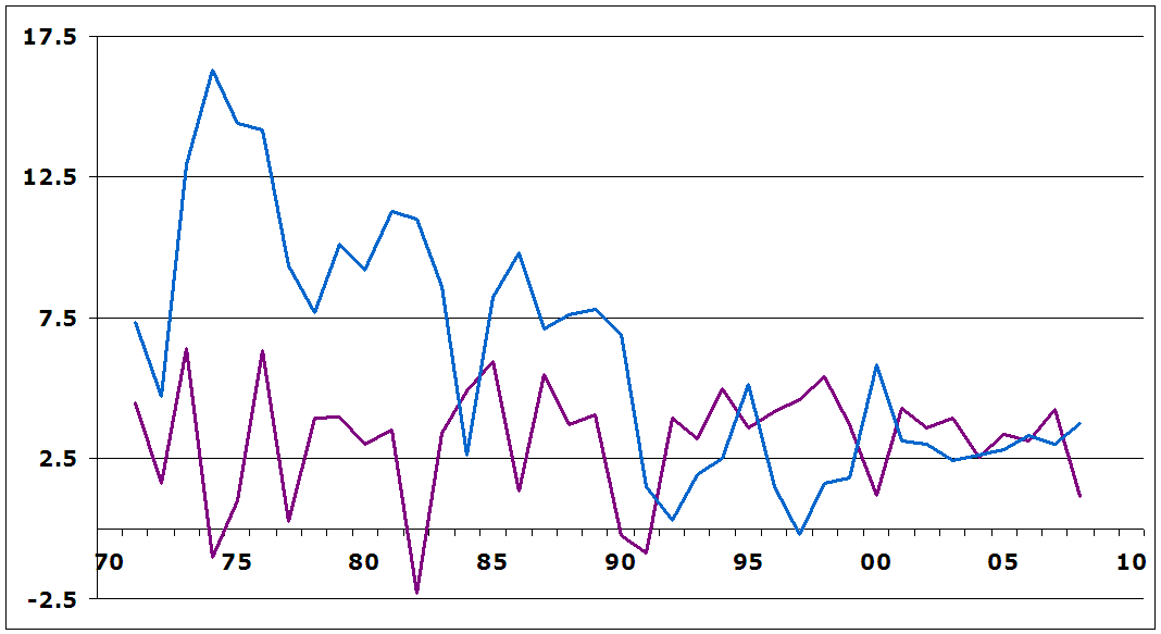 Evolution of Australian GDP (red) and consumer price index (blue), 1970-2008. Source Reserve Bank of Australia. Evolution des PNB (rouge) et inflation (bleu) australiens, 1970-2008. Source: Banque centrale australienne.